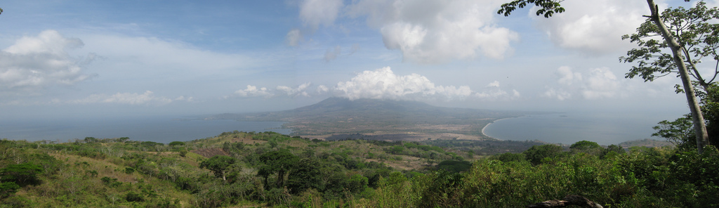 Ometepe Island, Nicaragua View of Concepcion Volcano from Maderas Volcano